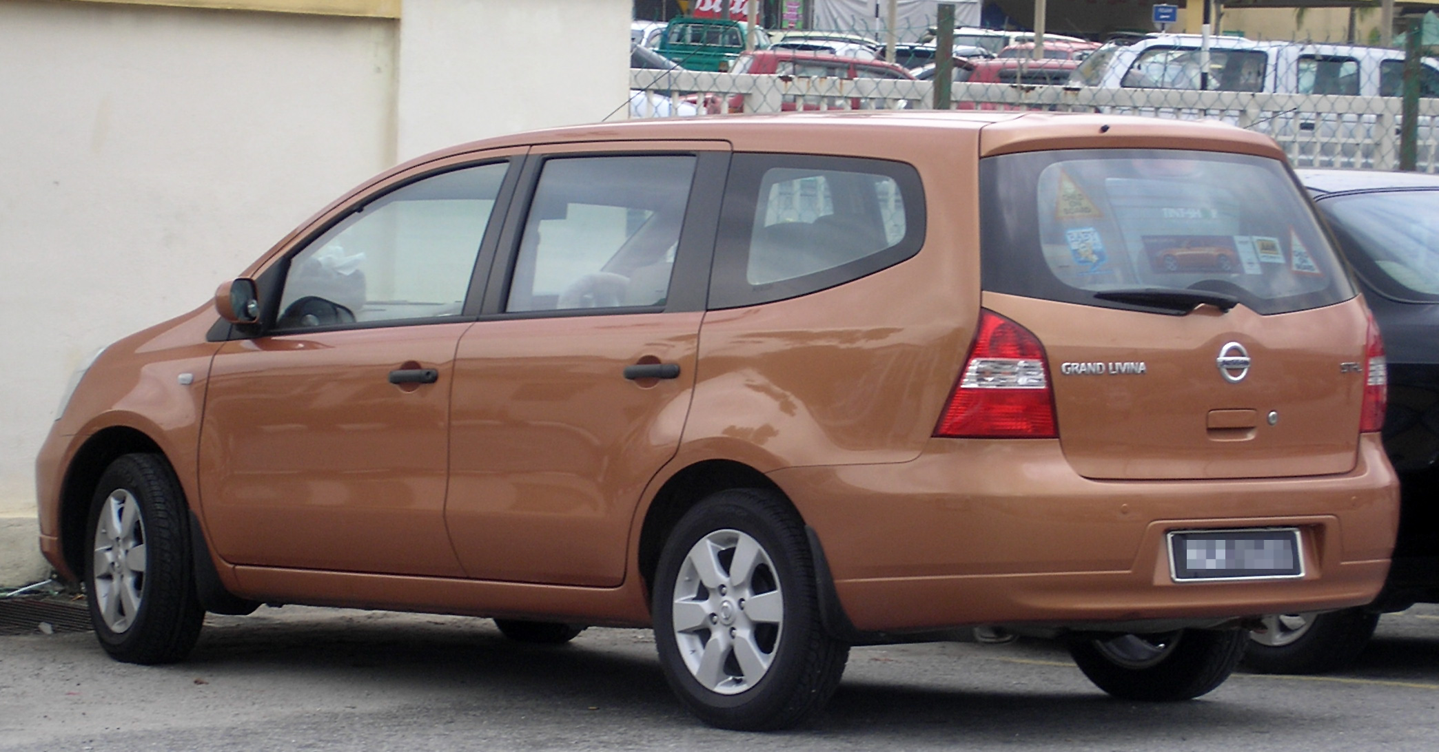 Rear quarter view of a first generation Nissan Grand Livina, in Serdang, Selangor, Malaysia.